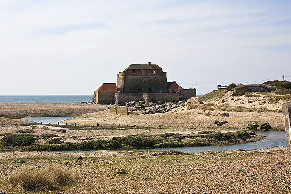 Fort Mahon in Ambleteuse, Pas-de-Calais. France